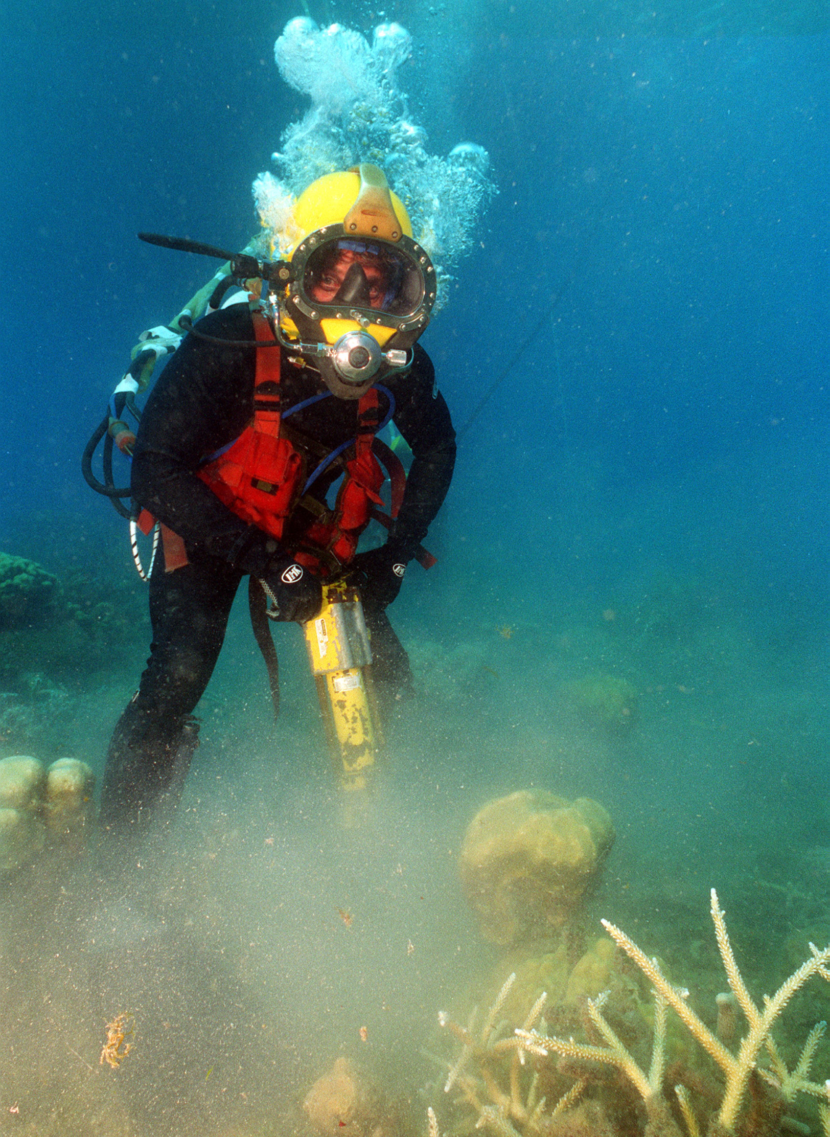 970216-N-3093M-002 Utilitiesman 2nd Class (Diver) Joe Karr assigned to Underwater Construction Team One’s Air Detachment Alpha, drills holes in the coral reef at ocean floor to secure small boat moorings in the waters off Naval Base Guantanamo Bay, Cuba. Drills Holes In The Coral Reef To Secure Small Boat Moorings In The Waters Of Guantanamo Bay, Cuba, In March, 1997. U.S. Navy Photograph by Photographer’s Mate 2nd Class Andrew Mckaskle (Released)